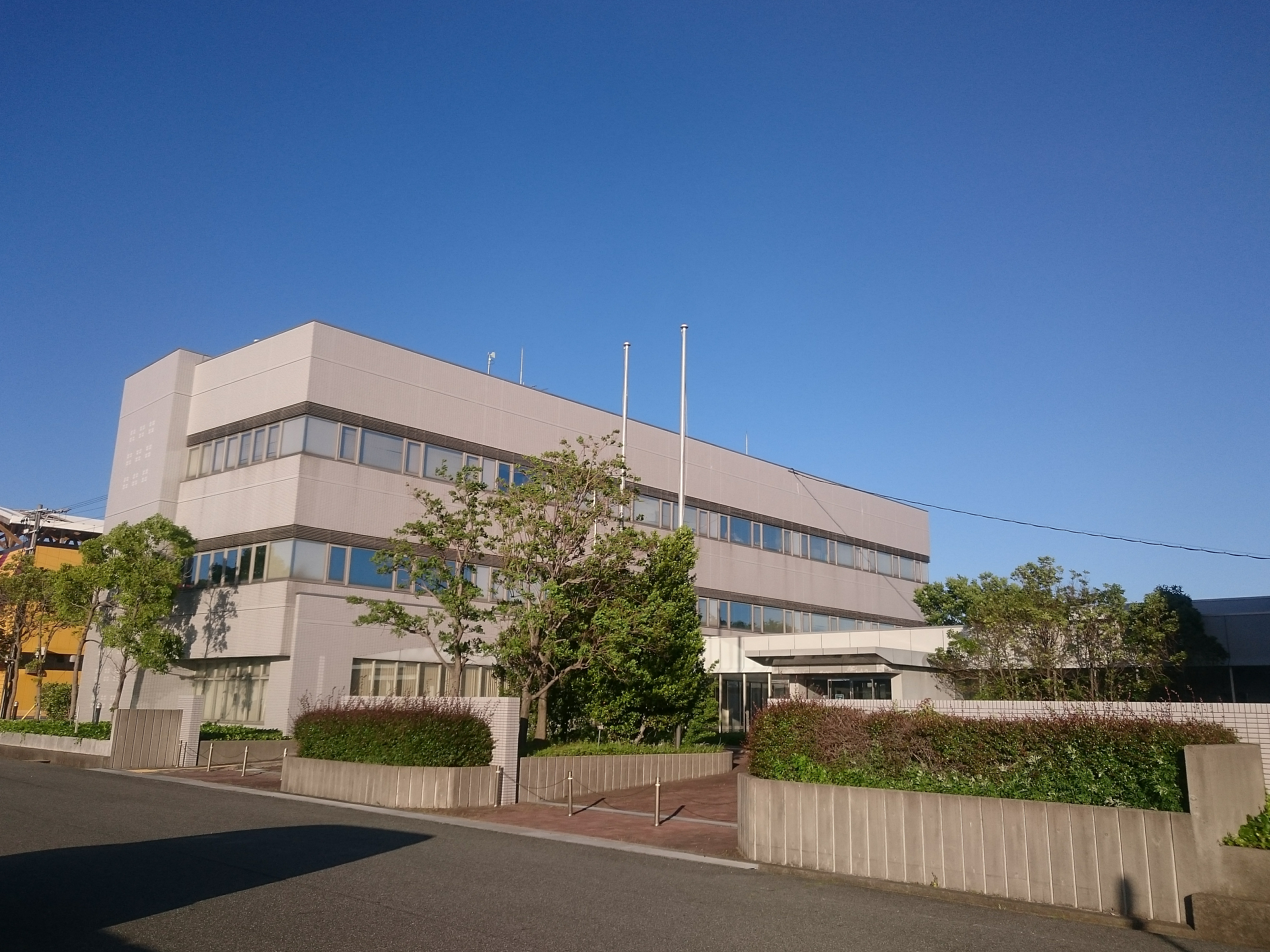 Aichi Fisheries Research Institute (愛知県水産試験場 Aichiken Suisan Shikenjō), located at 97 Wakamiya Miya-cho, Gamagori, Aichi, Japan